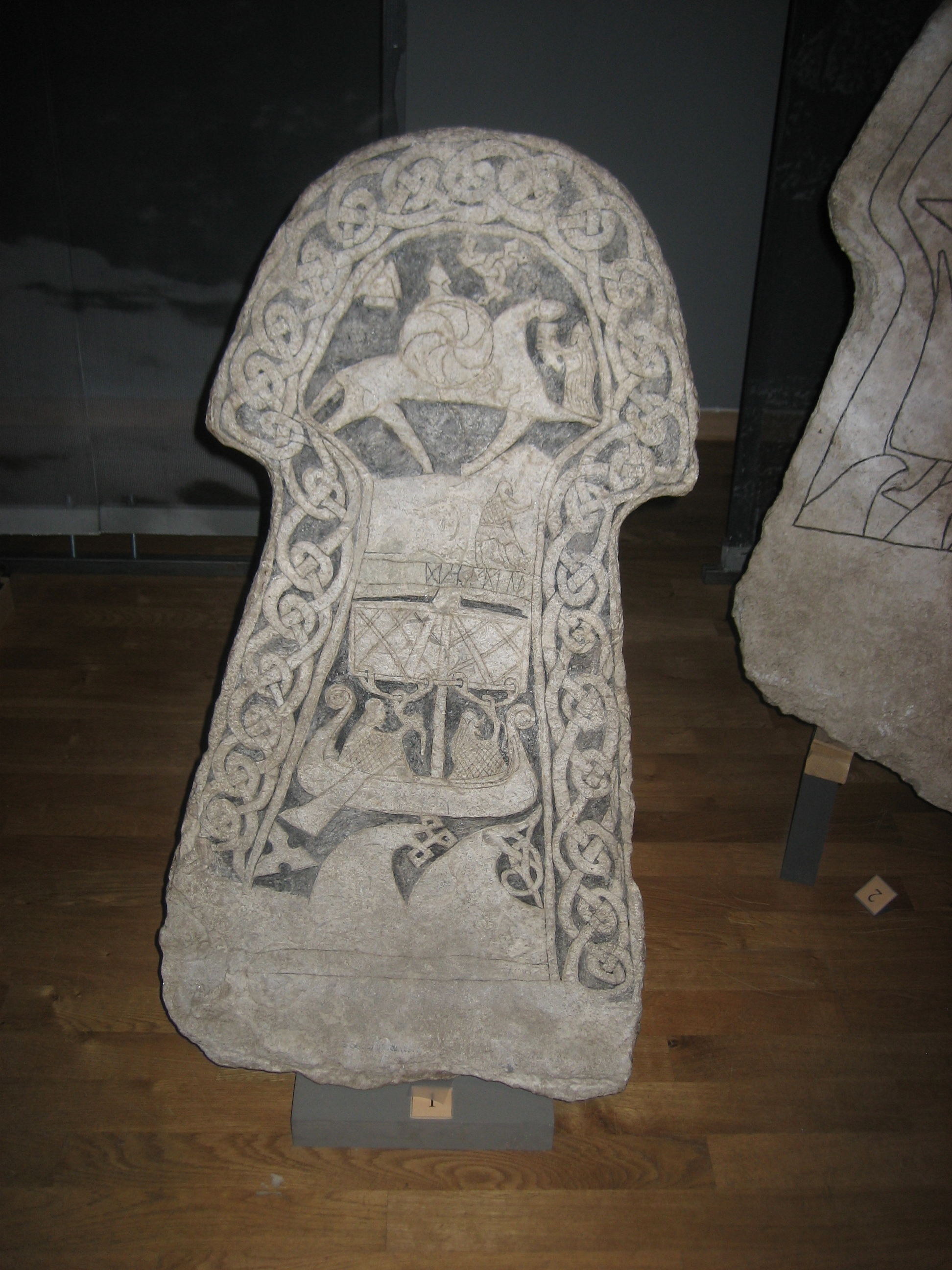 Gotland runestone G 268 from Lillbjärs on display at the Historiska Museet, Stockholm. The runes have not been interpretted.